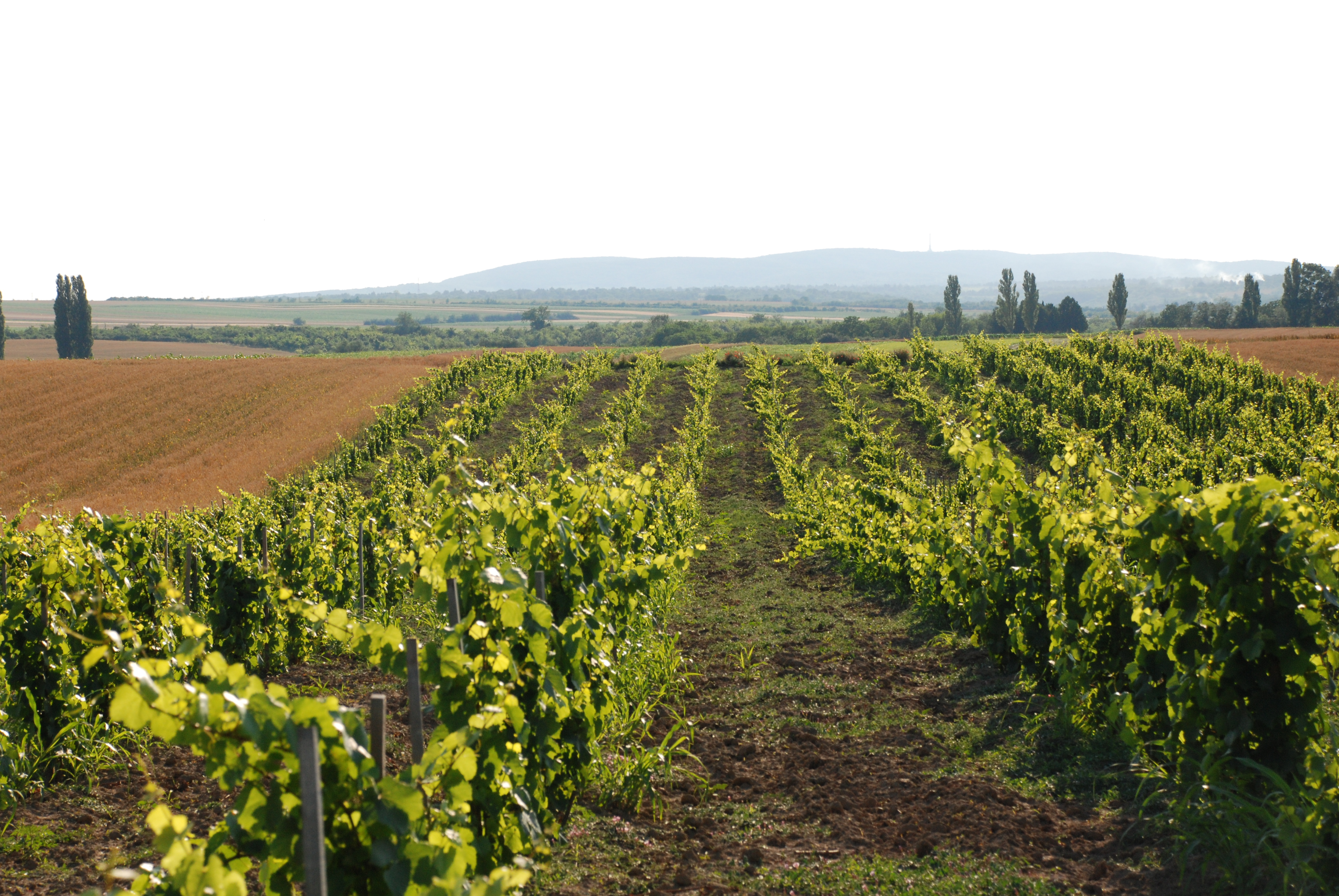 Место је Бешка, Калакача, обронци Фрушке Горе